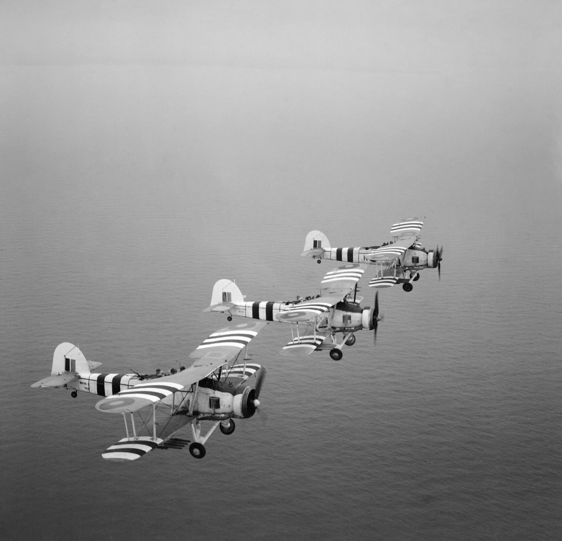 Rocket-armed Fairey Swordfish on a training flight from RNAS St Merryn in Cornwall, 1 August 1944. Three rocket projectile Fairey Swordfish during a training flight from St Merryn Royal Naval Air Station This operational squadron was commanded by Lieutenant Commander P Snow RN. Note the invasion stripes carried for the Normandy landings on the wings and fuselage of the aircraft.